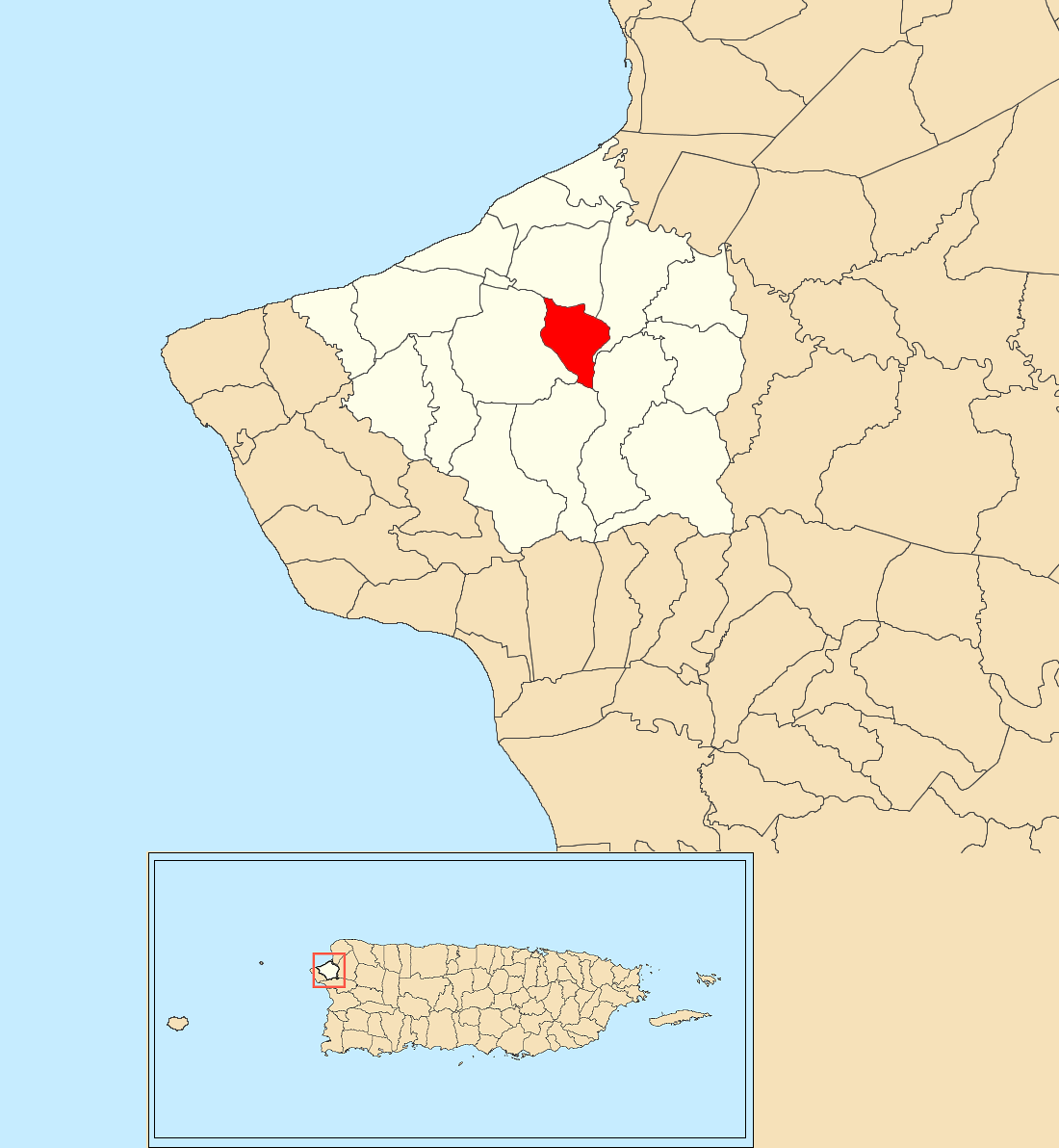 Mal Paso, Aguada, Puerto Rico locator map